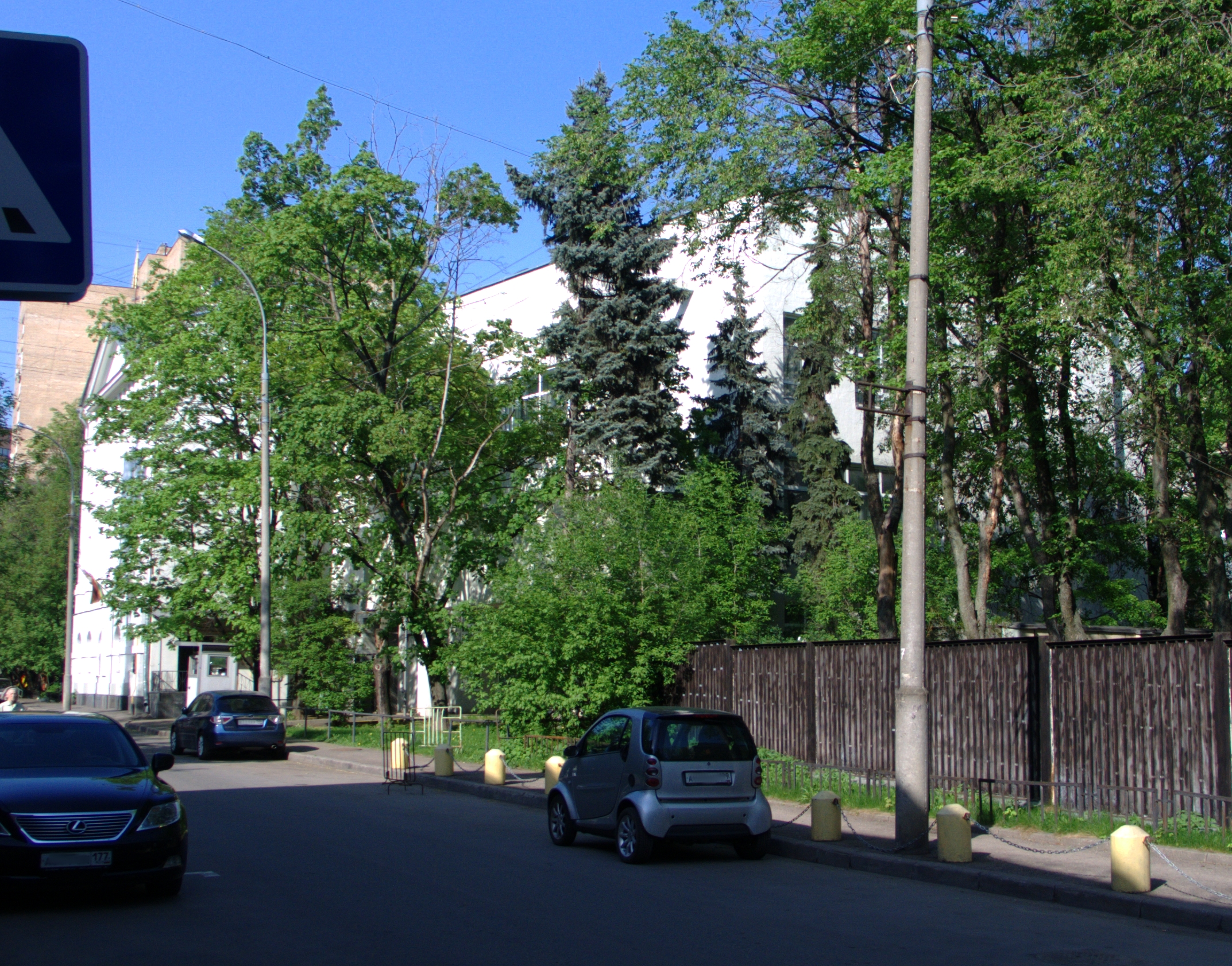 The building of the Embassy of Zimbabwe in Moscow (Serpov side-street, 6) behind the trees.